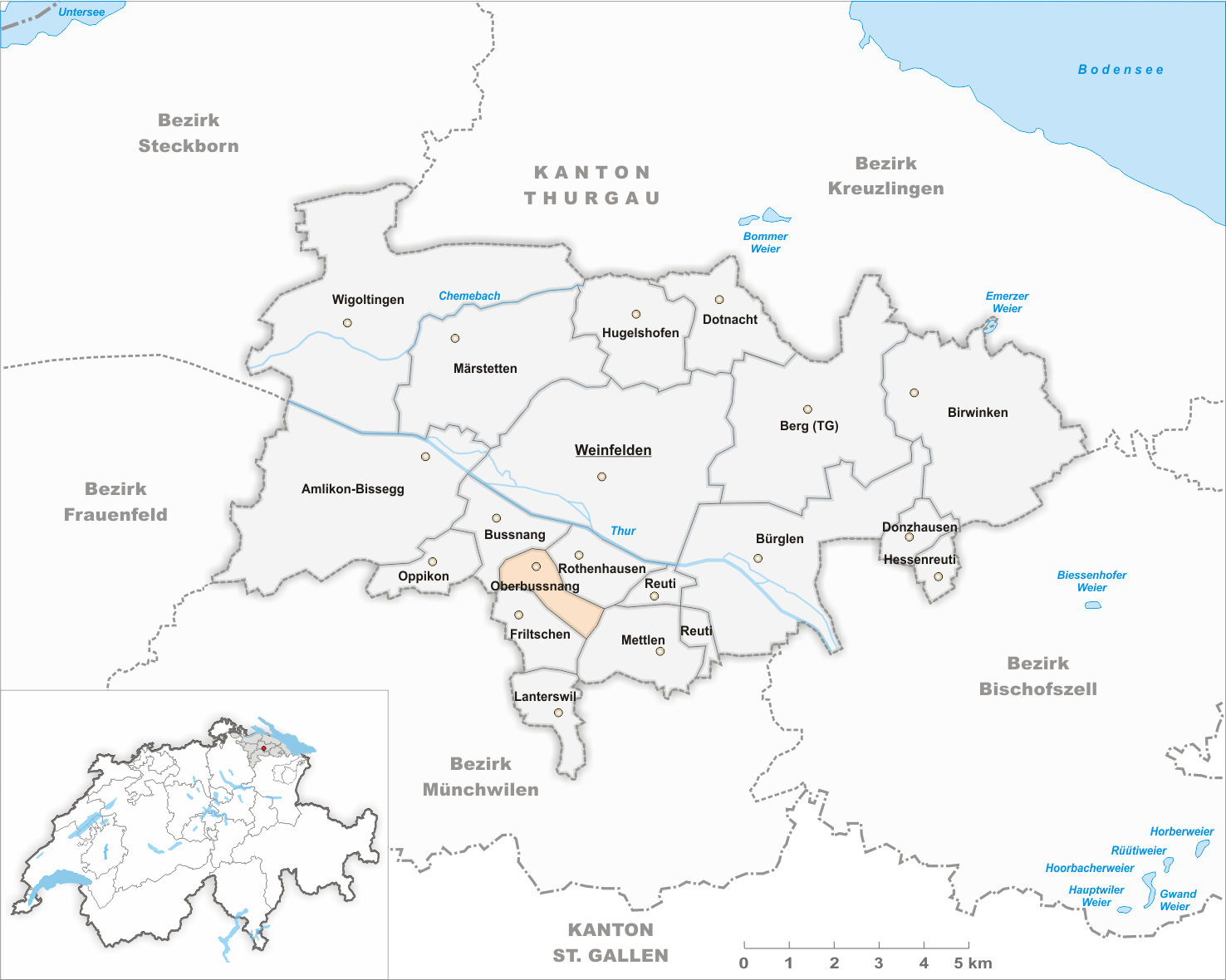 Municipality Oberbussnang